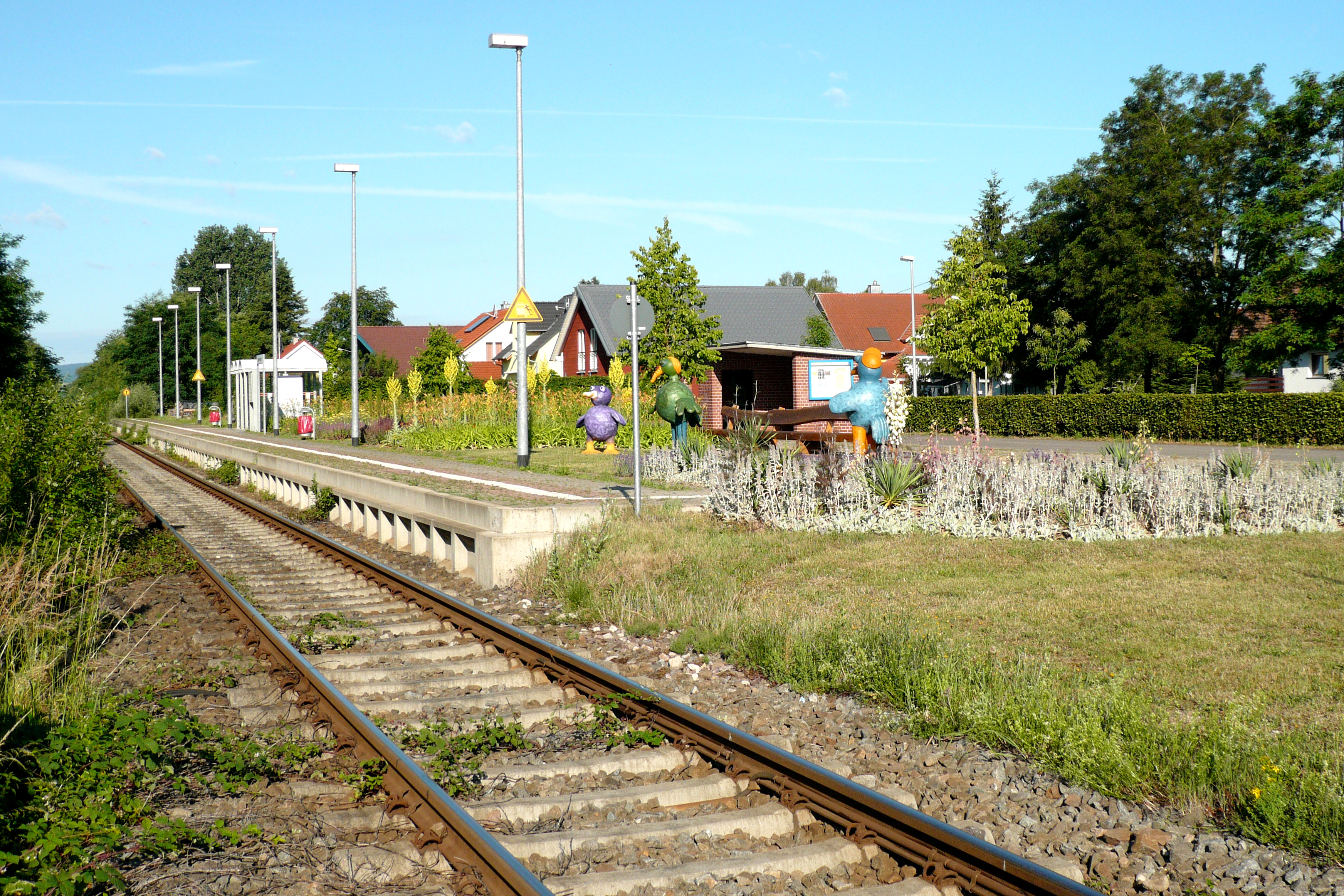 Train station of Kapsweyer village, Germany